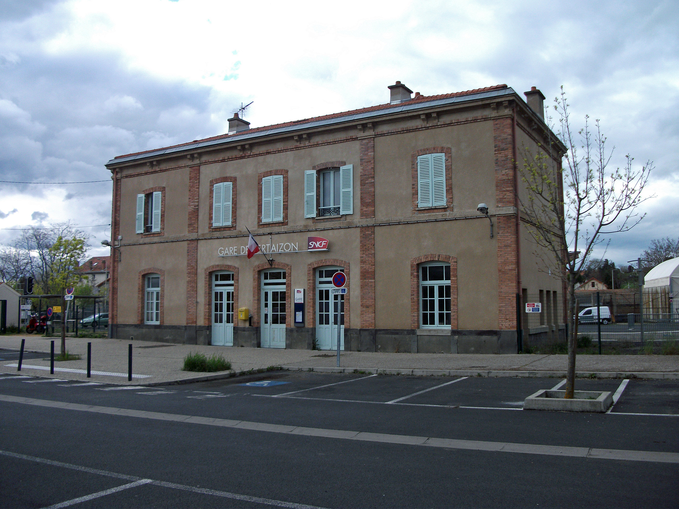 Vertaizon railway station: passenger's building [10696]